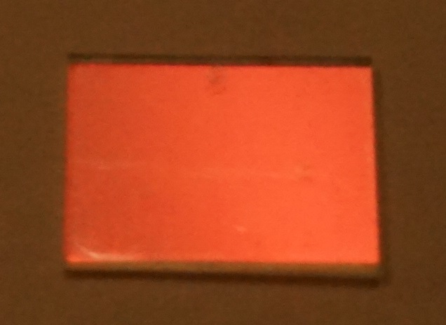 A hot mirror, which reflects infrared light but allows visible light to transmit through, used to reduce red-eye in a digital camera.